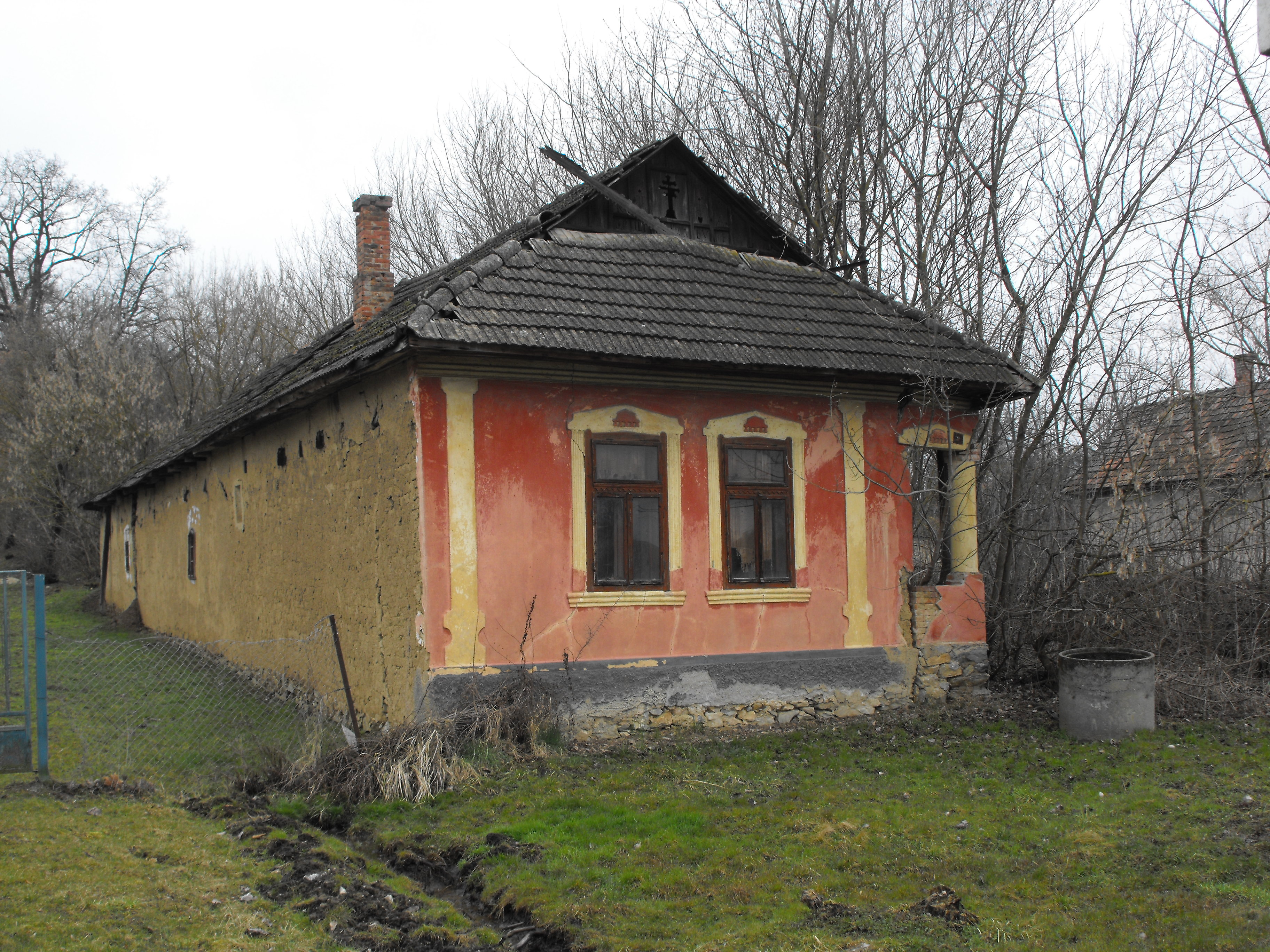 Traditional house from +/- 1925 in Viszló, northern Hungary